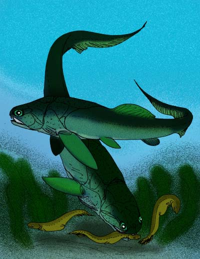 The freshwater arthrodire placoderm, Coccosteus cuspidatus, feasting on the mystery fish, Palaeospondylus gunni, in Lake Orcadie, Devonian Scotland. (C) Stanton F. Fink